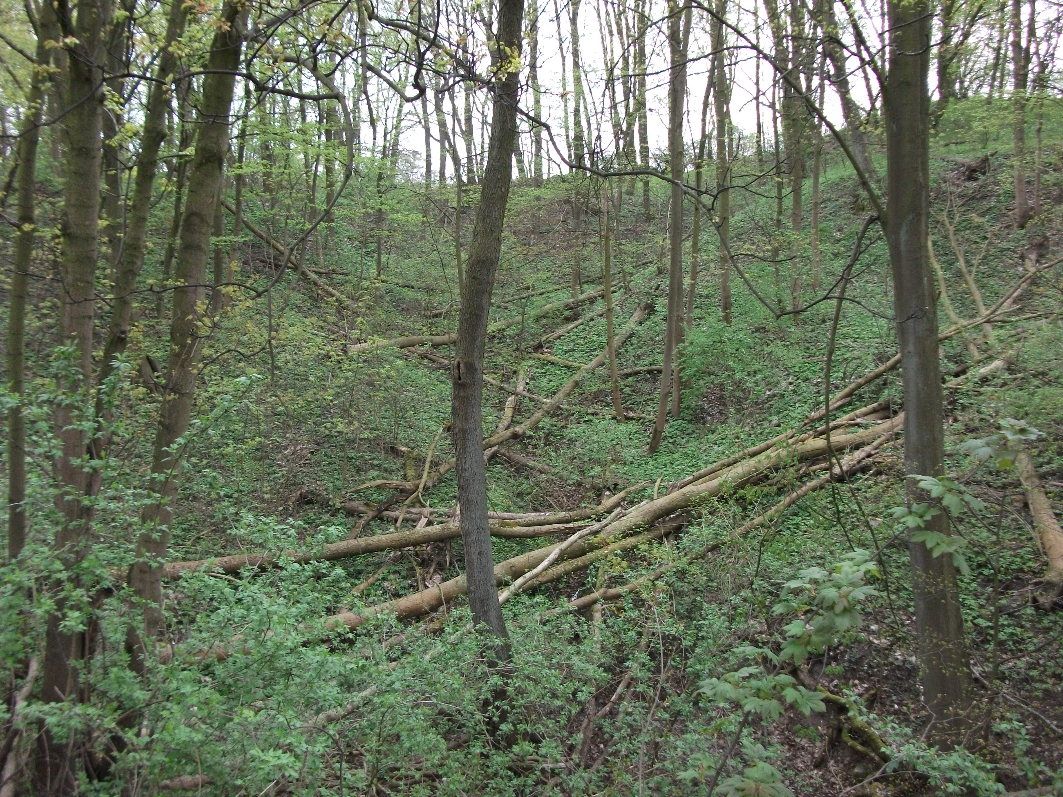 Rogóźno-Zamek, Poland